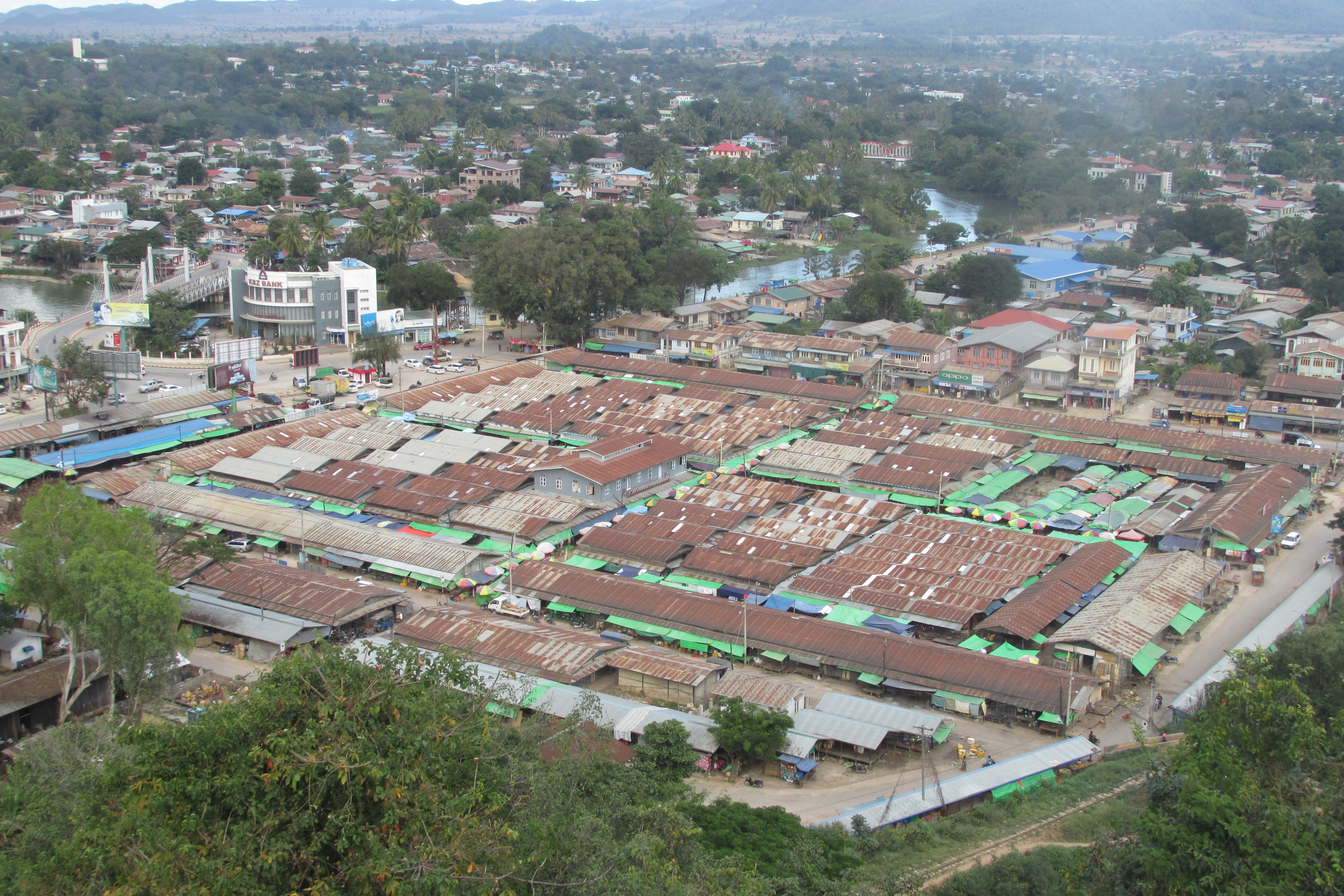 The Siri Mingalar Market of Loikaw မြန်မာဘာသာ: လွိုင်​ကော်မြို့ရှိ သီရိမင်္ဂလာ​​ဈေး